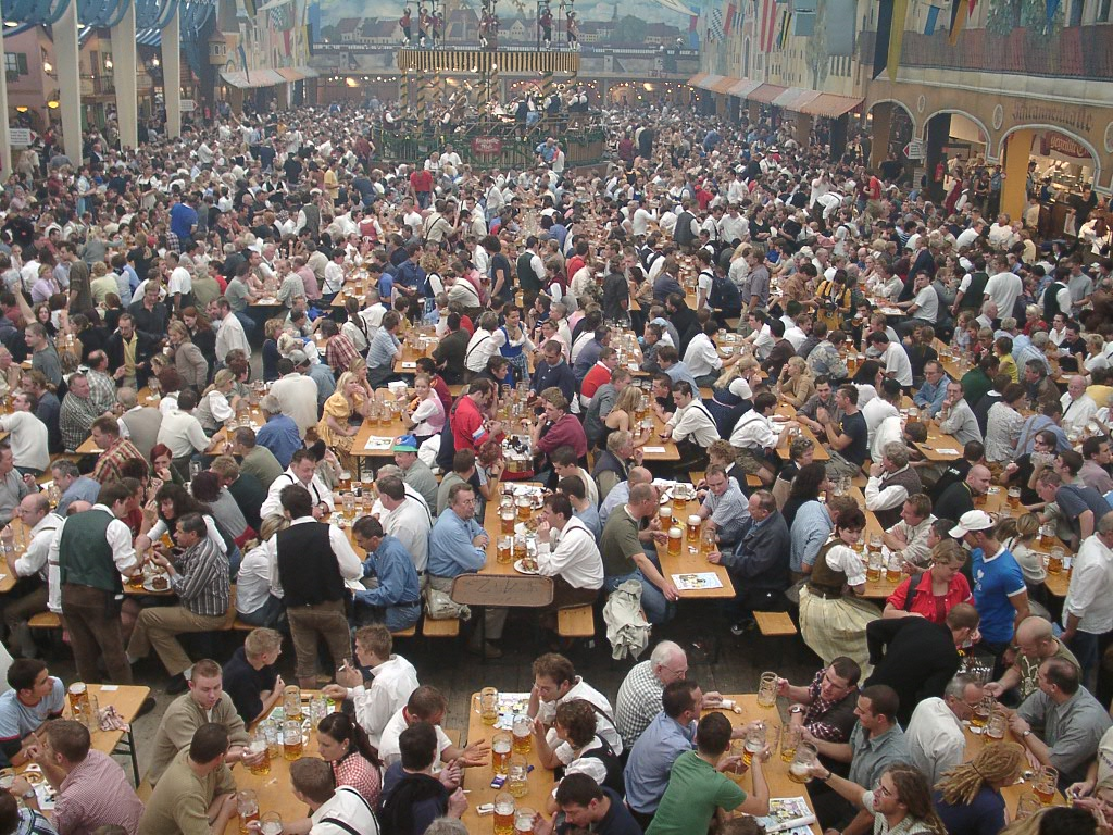 Oktoberfest (2003), Munich, GFDL, from Ukrainian Wikipedia